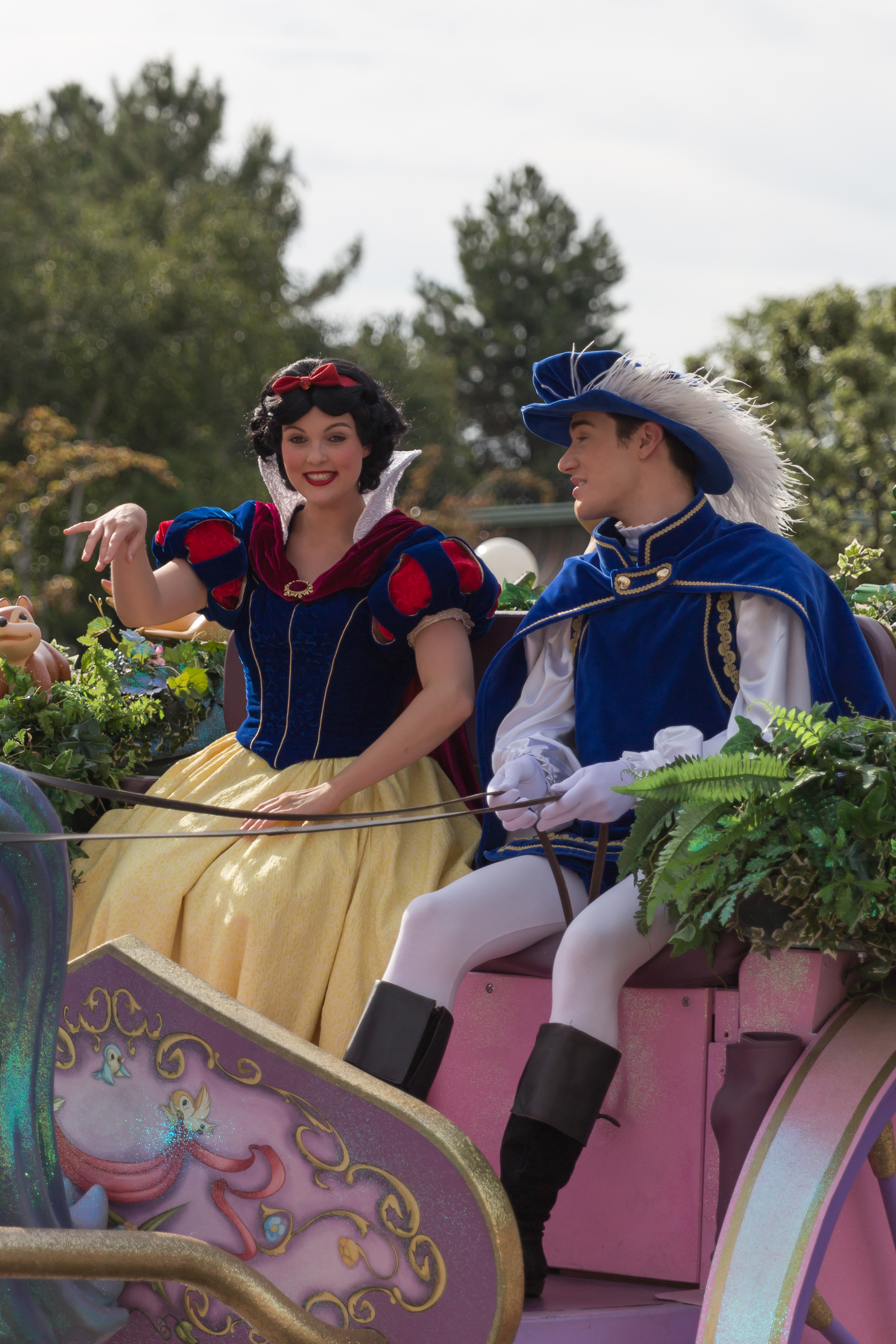 Snow White with her prince in the Disney Magic On Parade in Disneyland Paris.